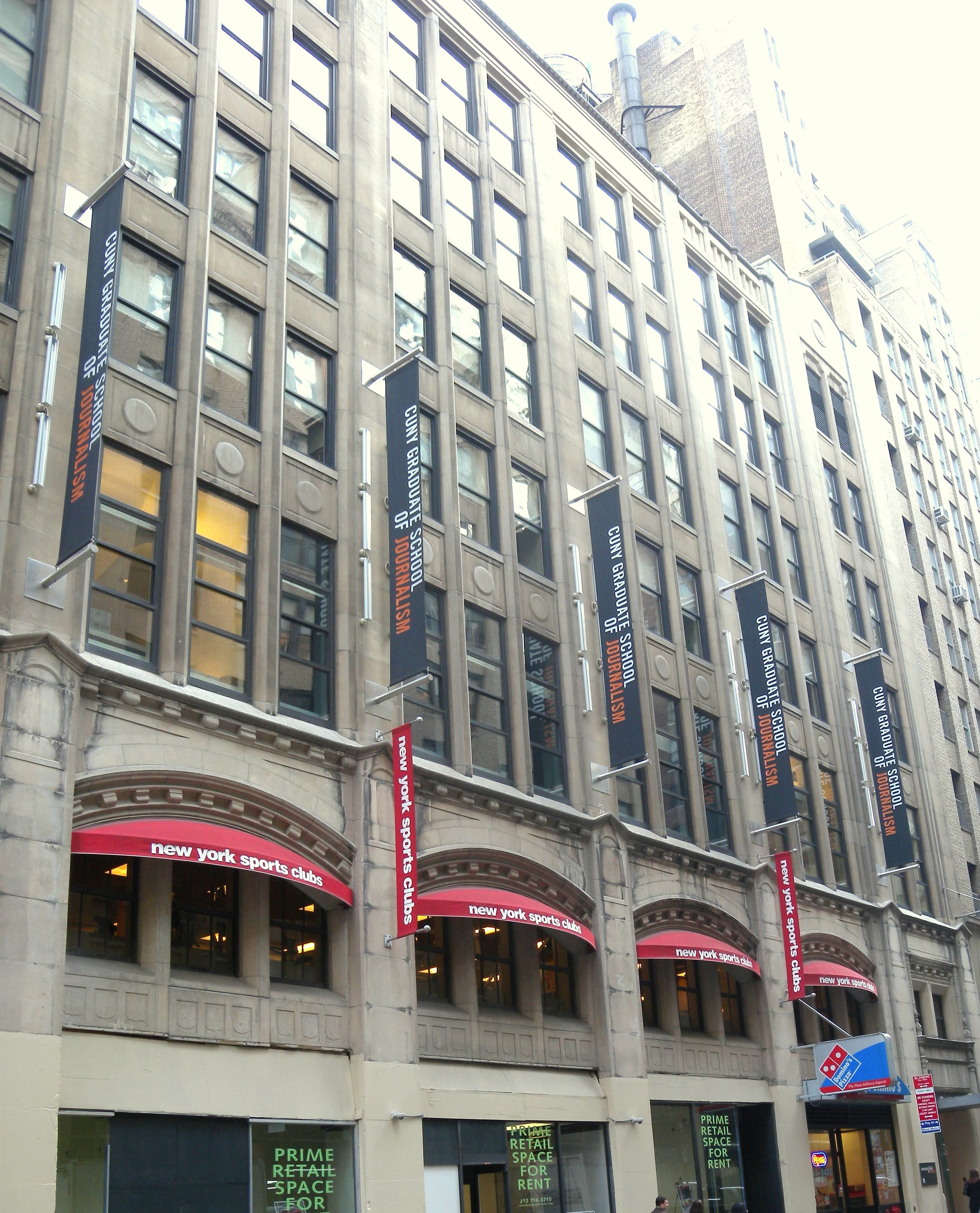 Looking east across West 40th Street at CUNY Graduate School of Journalism in the shade.